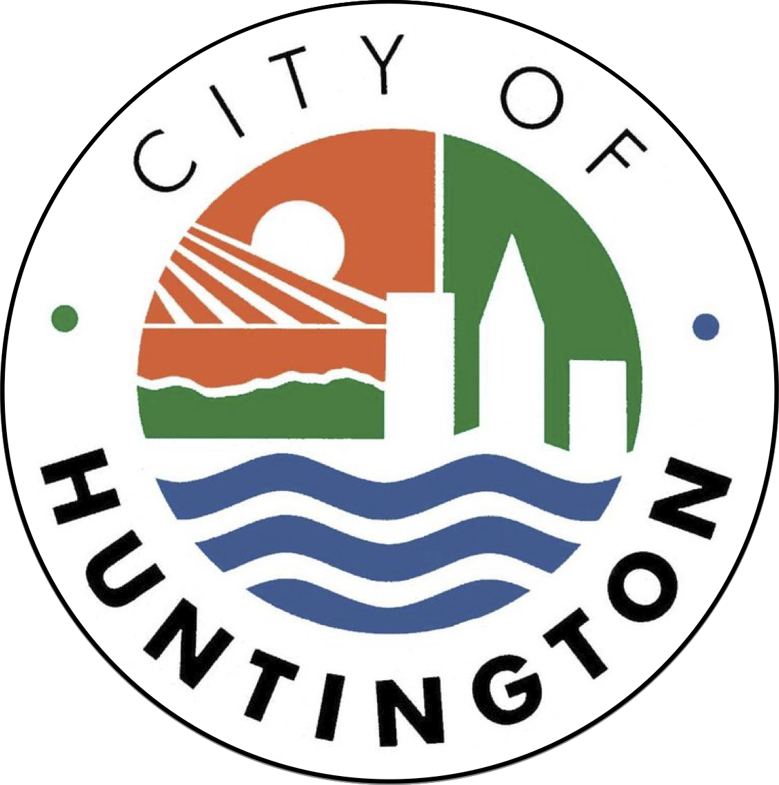 Seal of the City of Huntington, WV